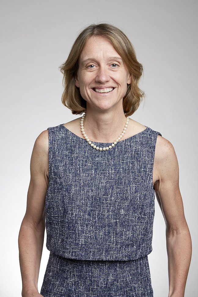 (Julia) Alison Noble (born 1965) OBE FRS FREng FIET CEng is Technikos professor of Biomedical Engineering at the University of Oxford and a Fellow of St Hilda's College, Oxford. Attribution: The Royal Society